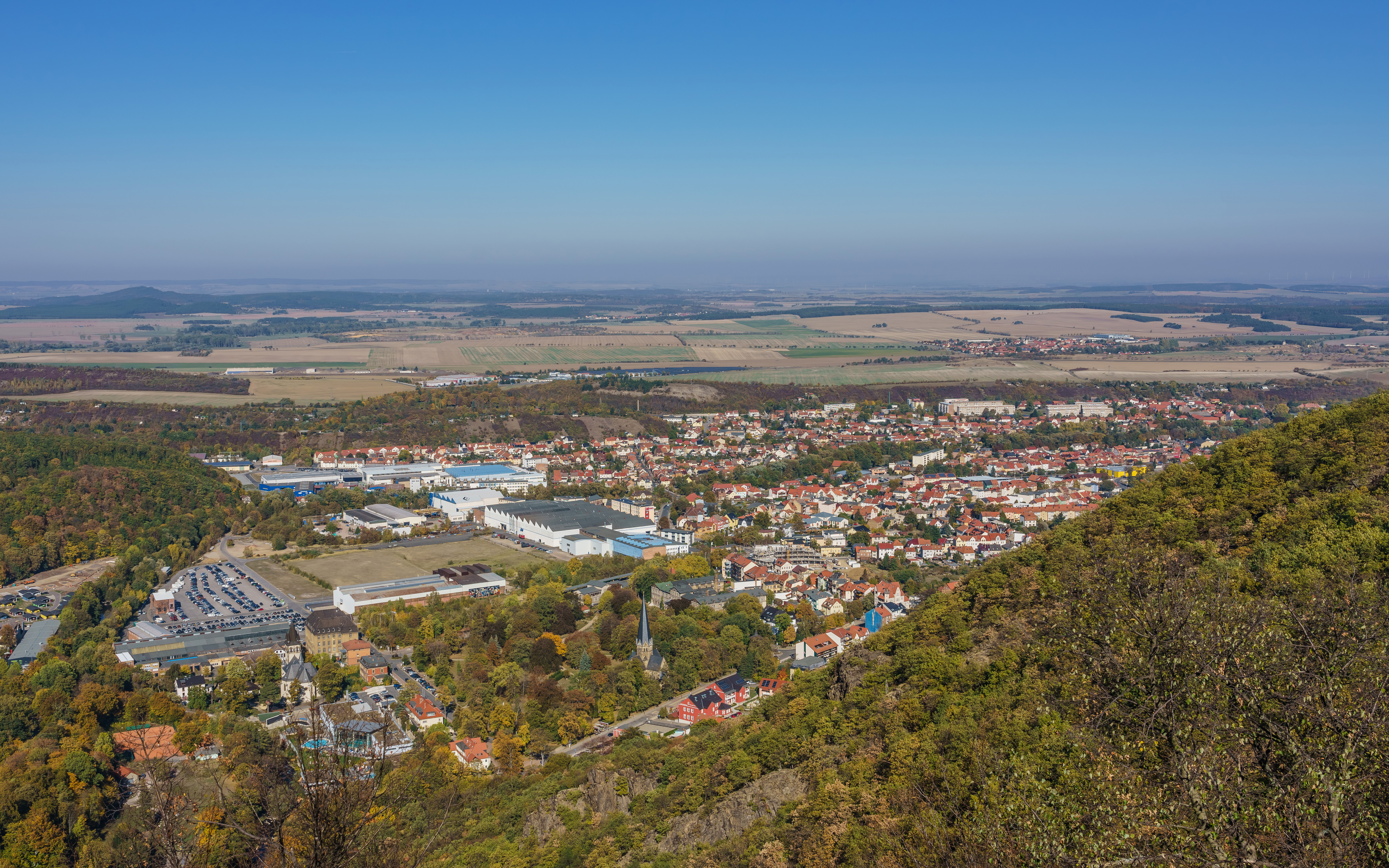 View from Witches' Point in Thale, Germany